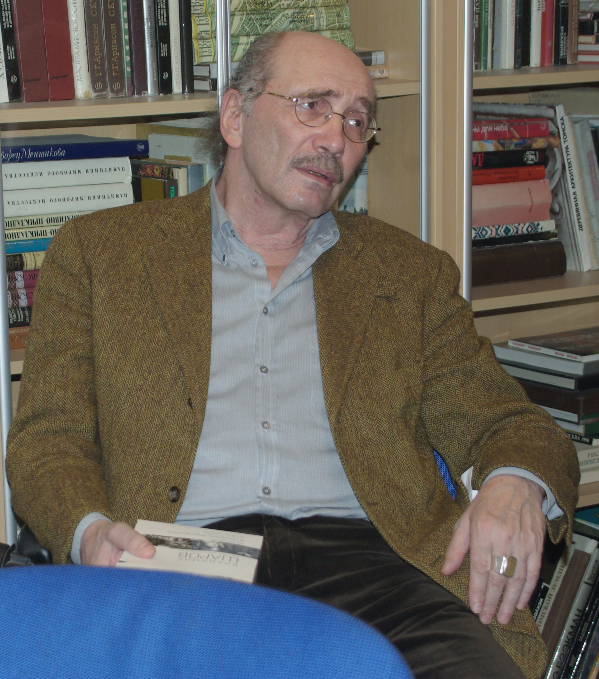 Russian writer Aleksandr Kabakov at the 11 Moscow International Fair of Intelectual Books, Non-Fiction 2009. In his hands, the Vladimir Sharov's selected works in 3 vol.